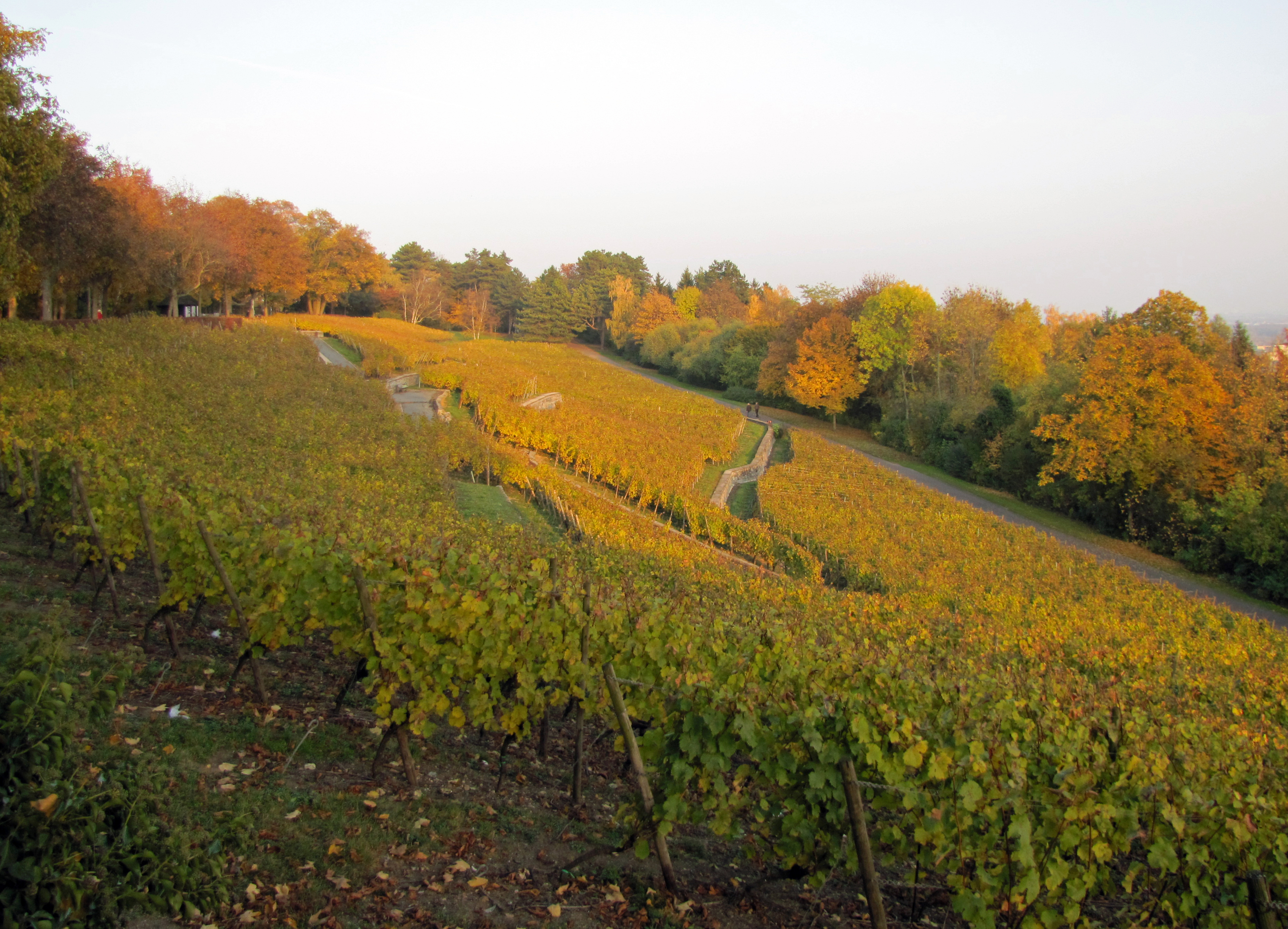 Lohrberger Hang, vineyard at autumn, Frankfurt-Seckbach, Germany.